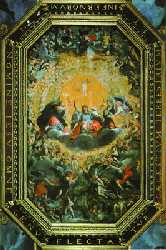 Painting in the ceiling of the Church of the Name of God in Pesaro, Italy, realized in 1617-1619 by Giovanni Giacomo Pandolfi.